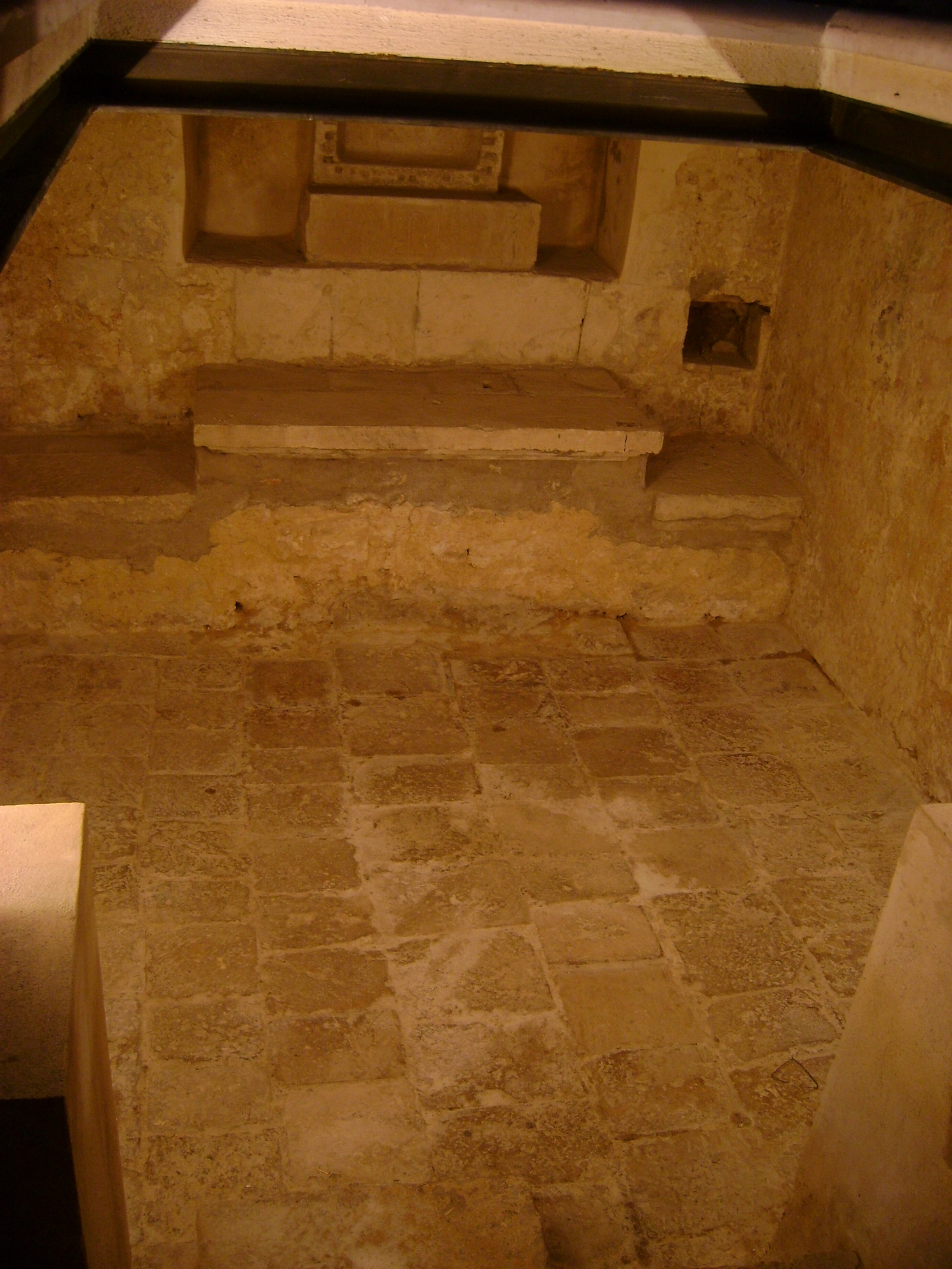 Remains of a building below the cathedral of Larino, in the province of Campobasso, Molise